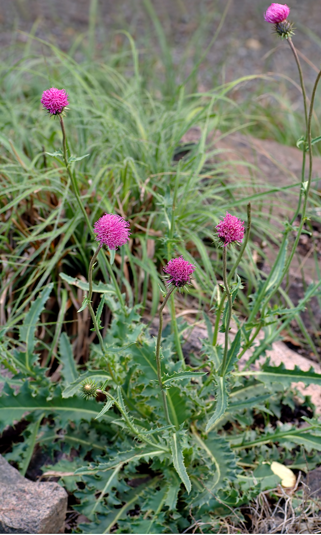 This image shows an Alpine thistle (Carduus defloratus).